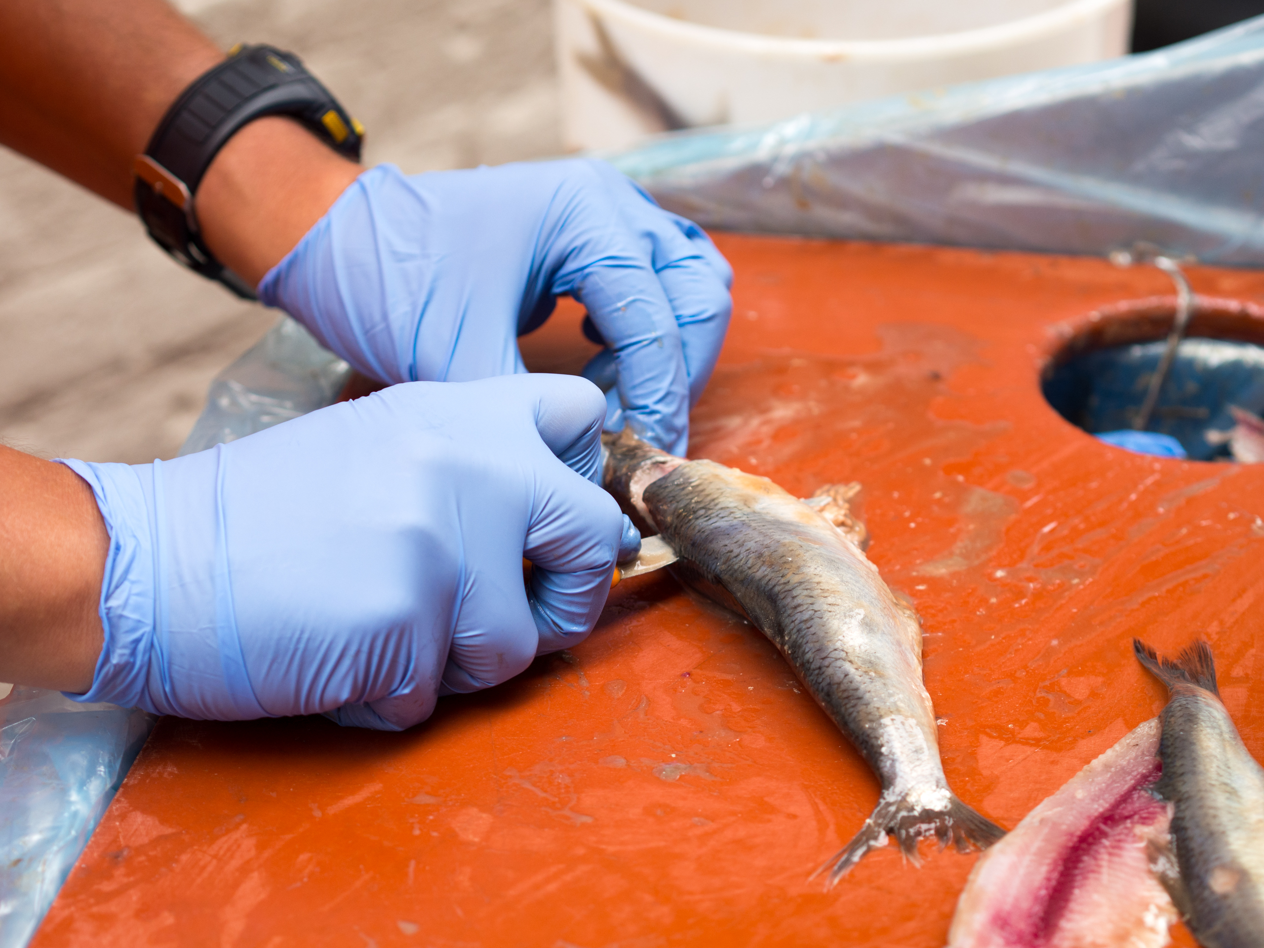 Cleaning a Dutch herring